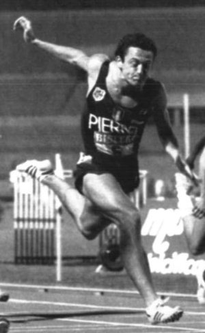 Pierfrancesco Pavoni in race in Italy.